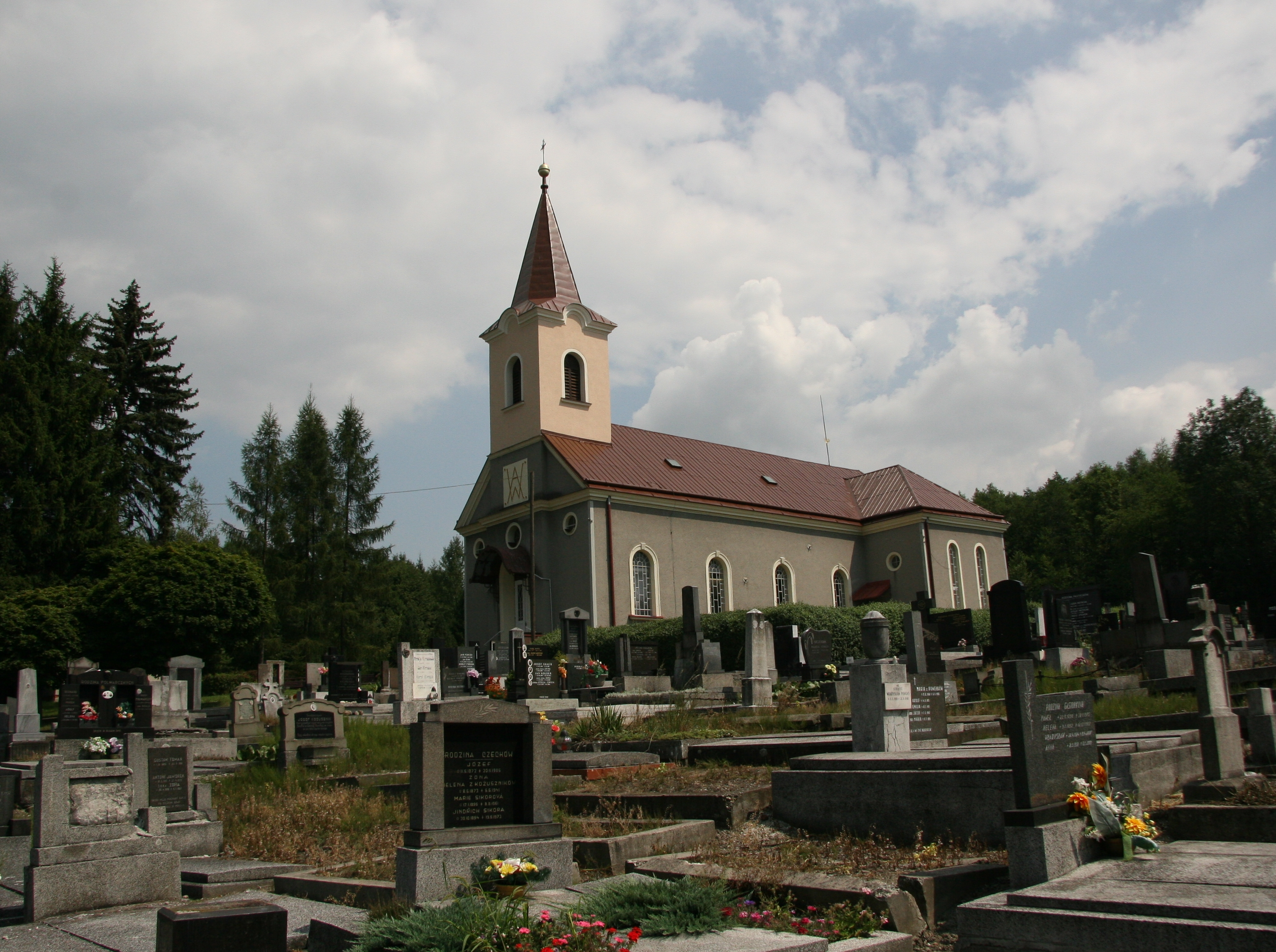 Evangelical church in Prostřední Suchá. Havířov, Karviná District, Moravian-Silesian Region, Czech Republic